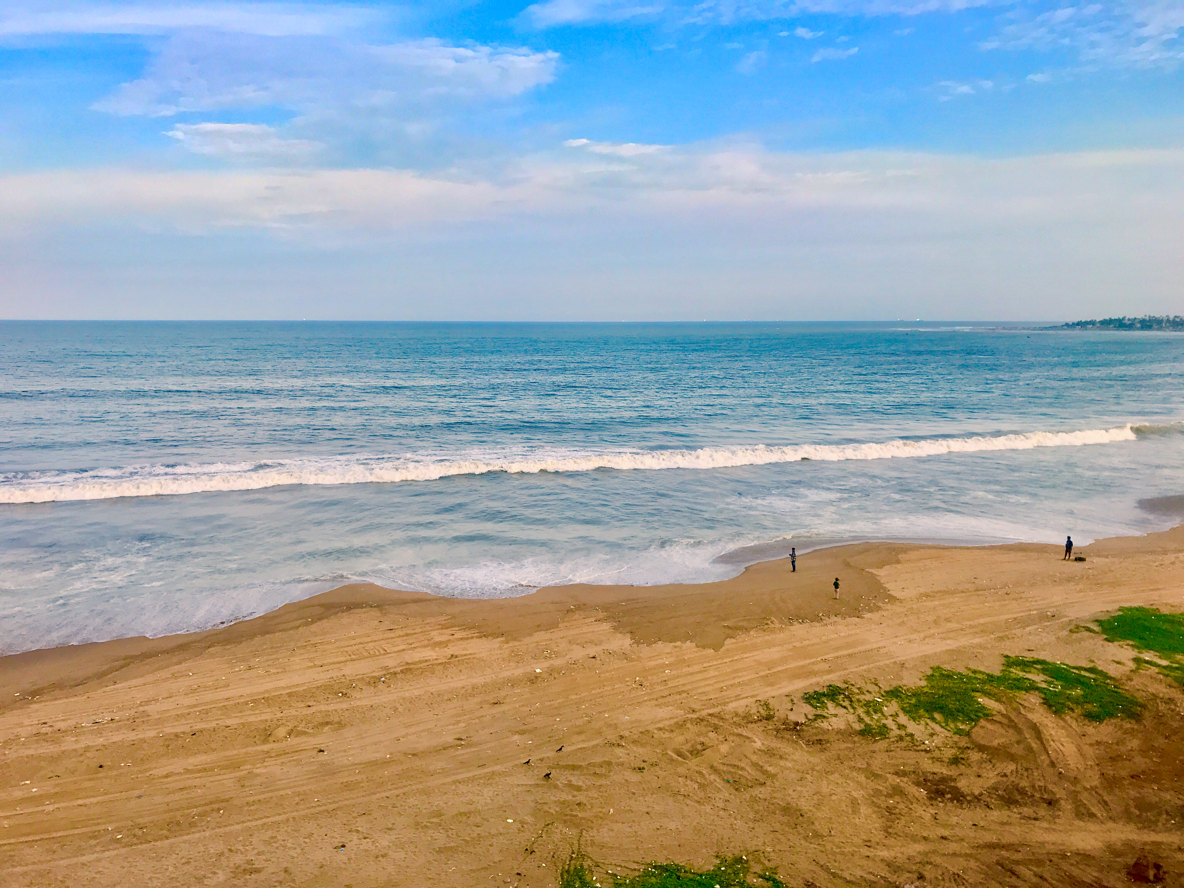 Bay of Bengal and Beach from Tenneti park